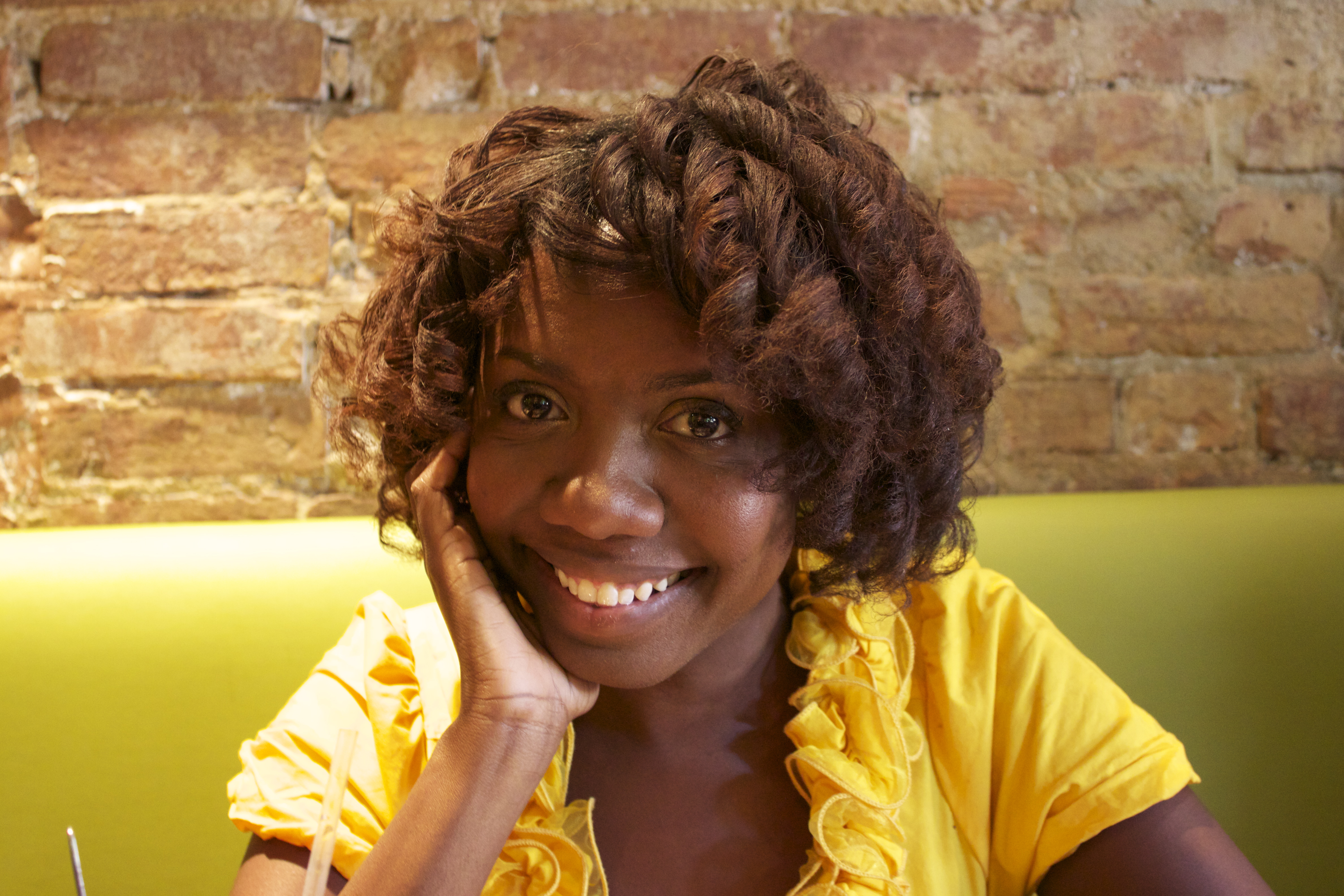 Twanna A. Hines, syndicated sex columnist